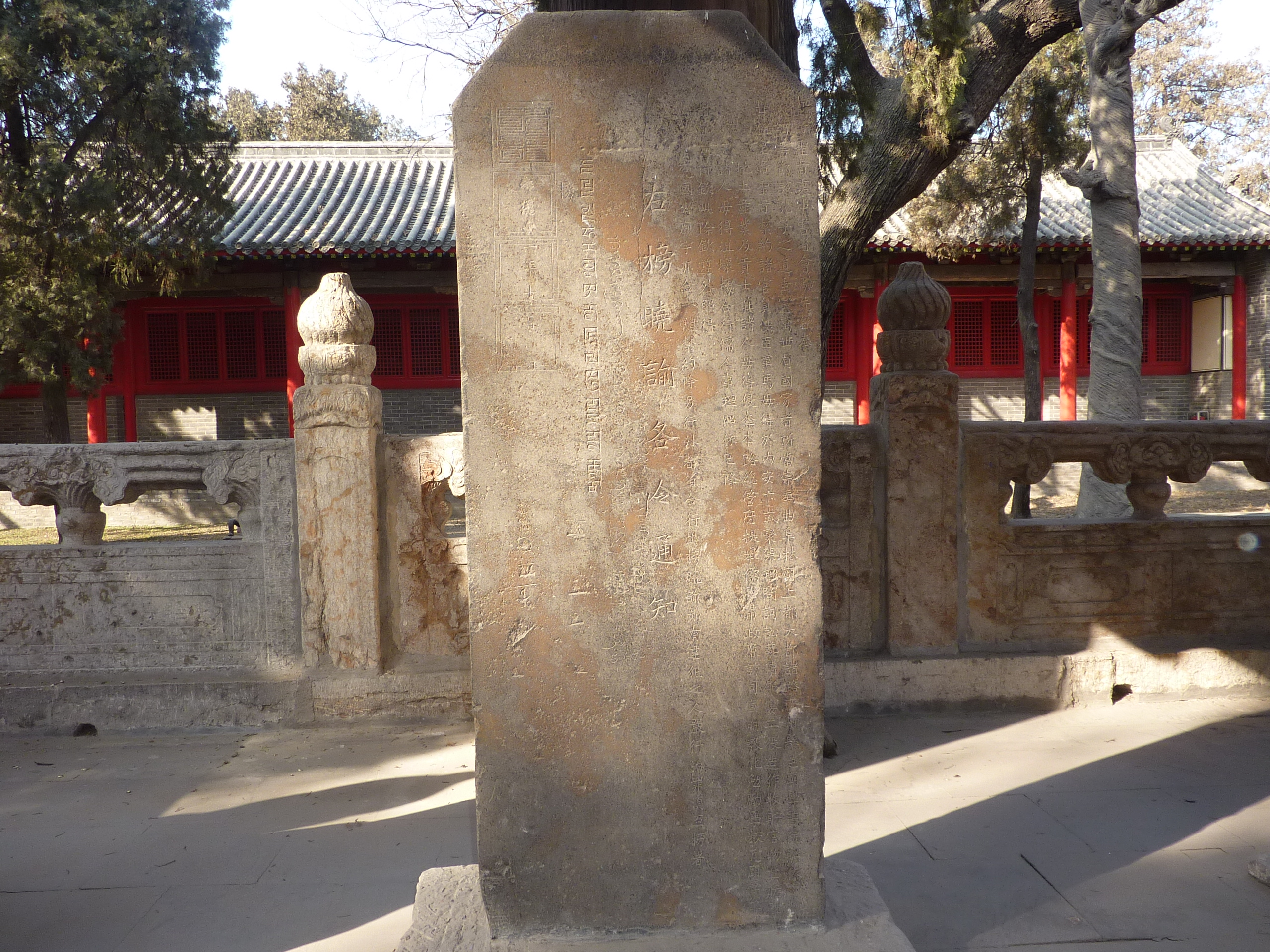 The stele with the imperial edict about the protected status of the Temple of Yan Hui (Yan Miao), dated Year 11 of the Dade era (AD 1307). It stands presently in the "Pavilion of Joy" in the northern courtyard of the Temple of Yan Hui.